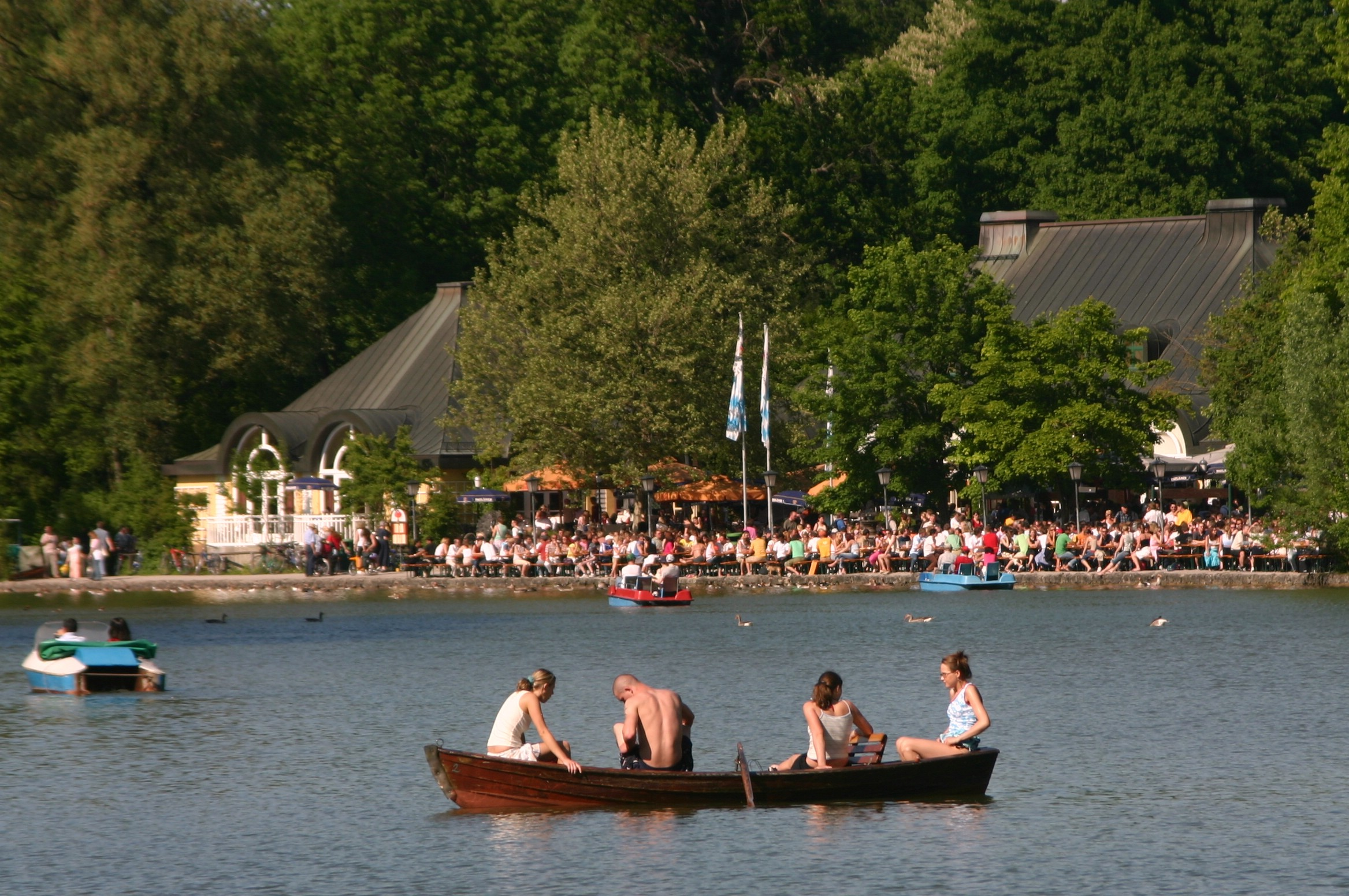 The Seehaus in the Englischer Garten urban park in Munich in 2005.